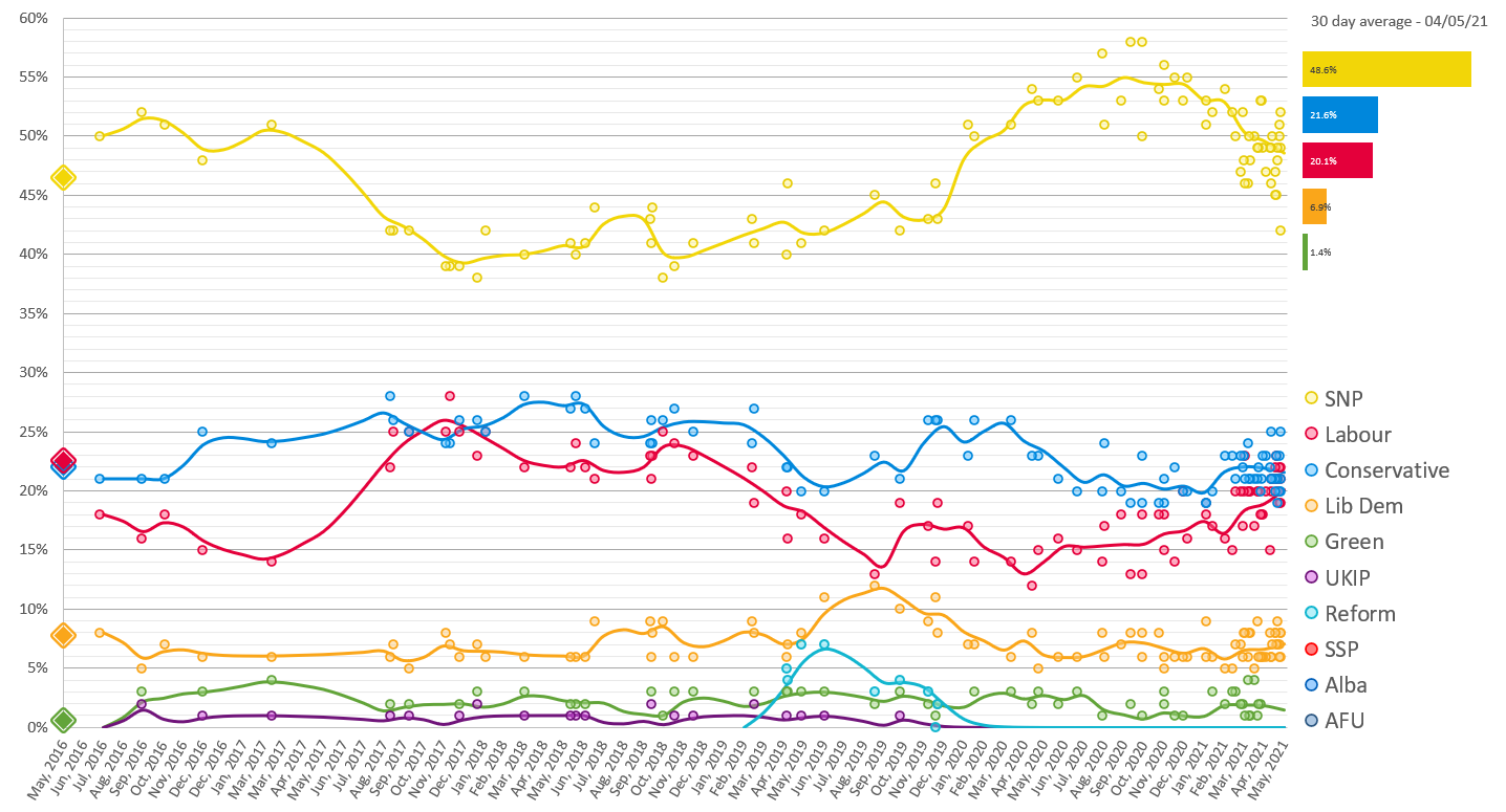 Opinion polling for the next Scottish Parliament election (constituency vote) with average 30 day trendline.